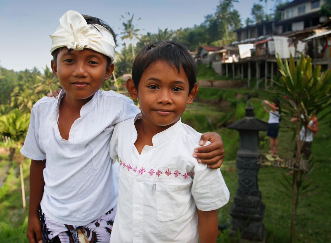 Two kids residing at the Rice Terrace